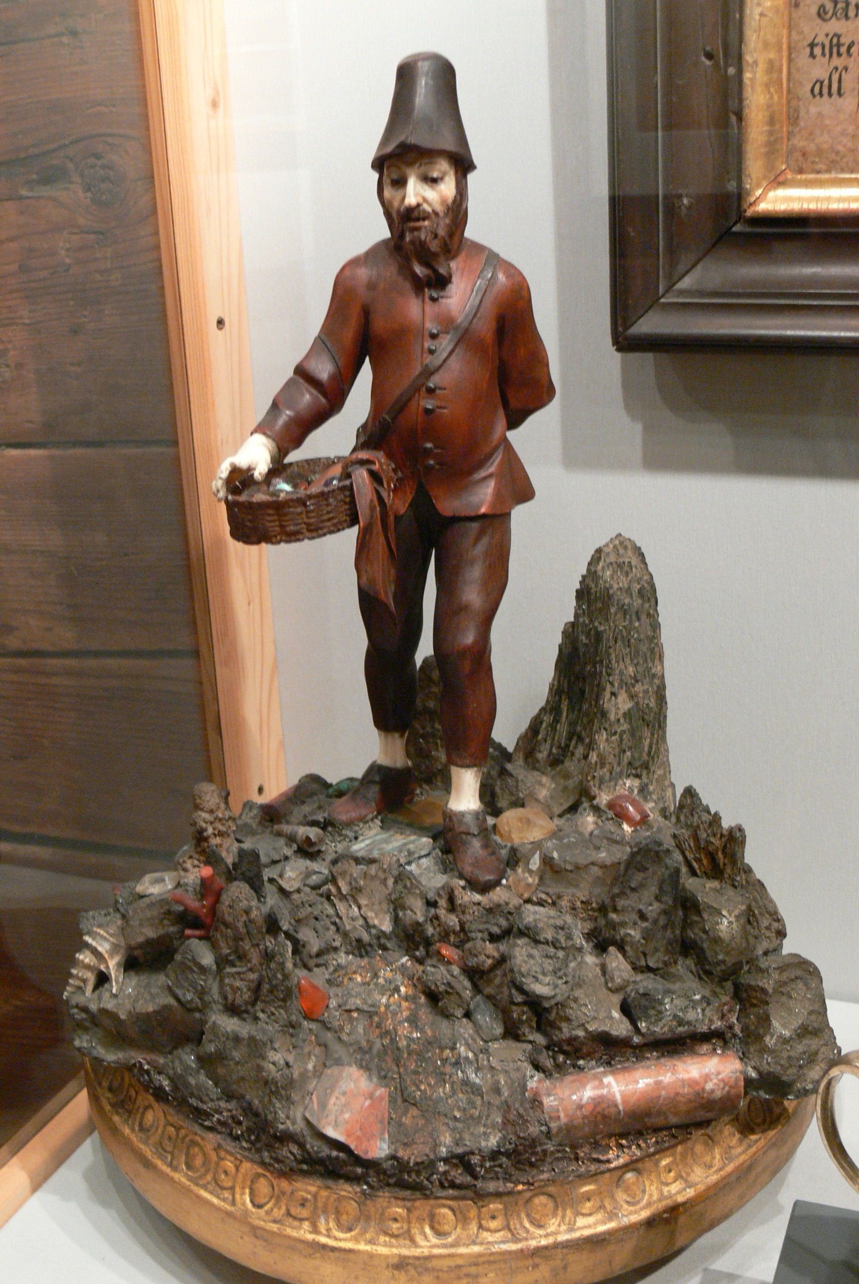 Museum of Mining and Gothic art in Leogang ( Salzburg state ): Statue of a miner carrying a basket with semi-precious stones ( 1760-1780 ), by Simon Troger.